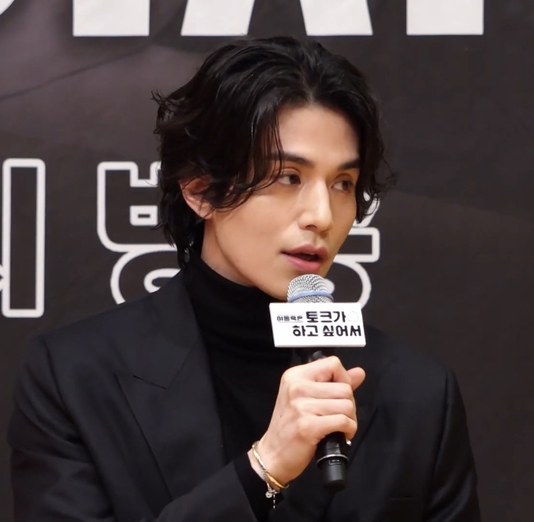 This shot was taken at the press conference of Lee Dong Wook’s Talkshow “Because I want To Talk”, which took place on December 2nd at the SBS Hall in Mokdong, Seoul.